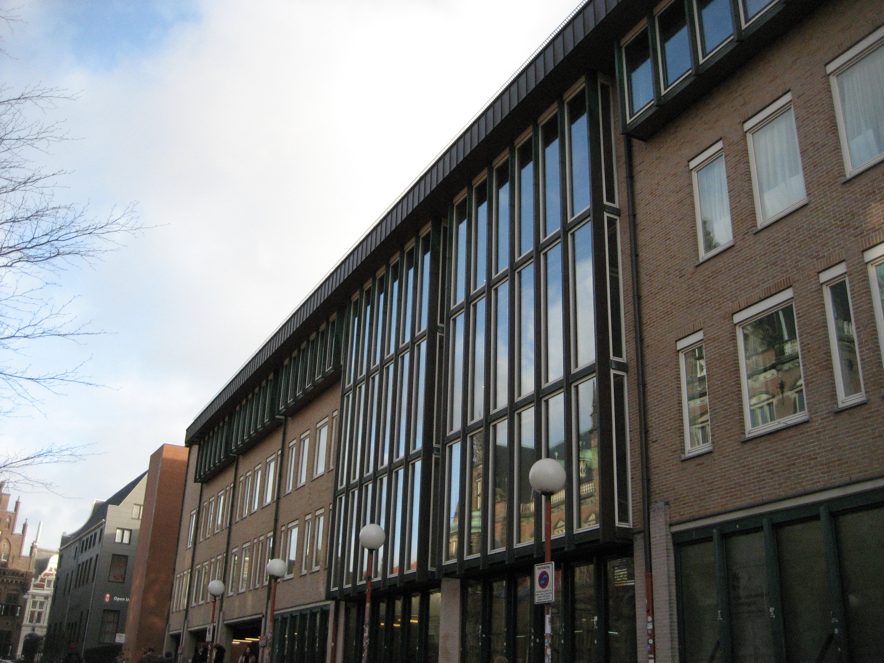 University Library Groningen University, Broerstraat 4, 9712 CP Groningen (the Netherlands). Architect P.H. Tauber